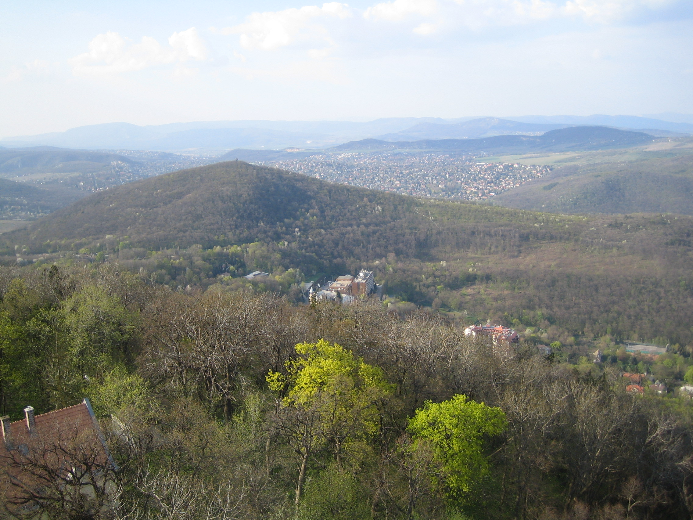 View from Janoshegy Hill Watchtower, Budapest